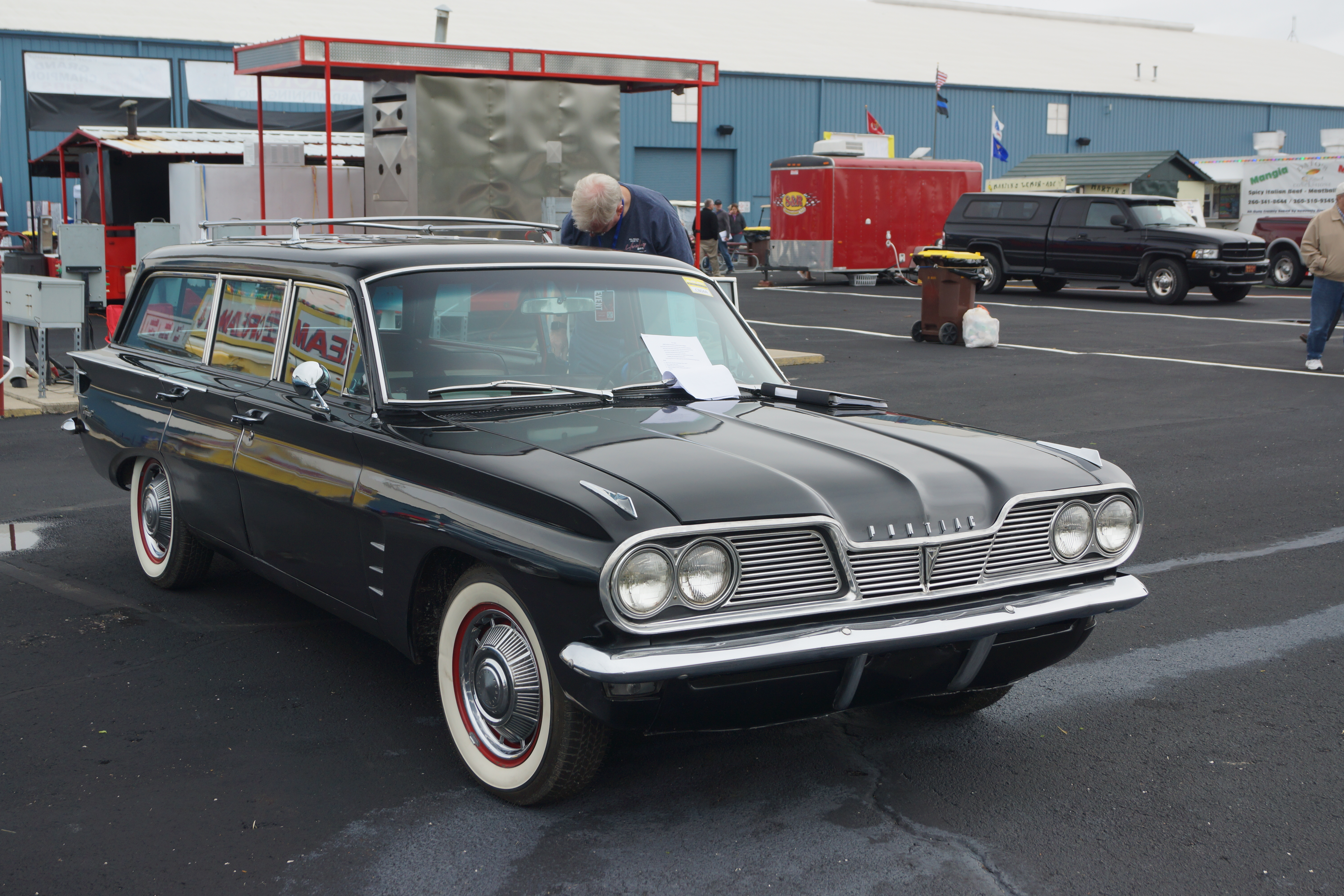 Auburn Spring RM Sotheby's Auctions America Auburn Auction Park Auburn, Indiana May 2017 Click here for more car pictures at my Flickr site. Or here for my Car Crazy Tumblr site. Or on Twitter @DVS1mn.